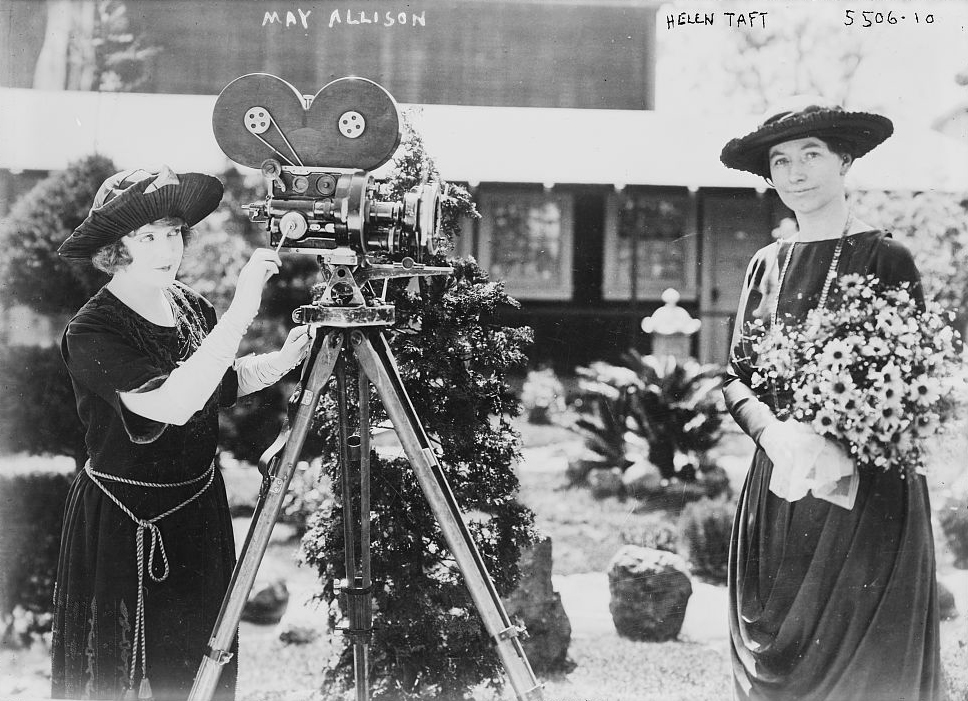 May Allison (left) and Helen Taft (right) with movie camera